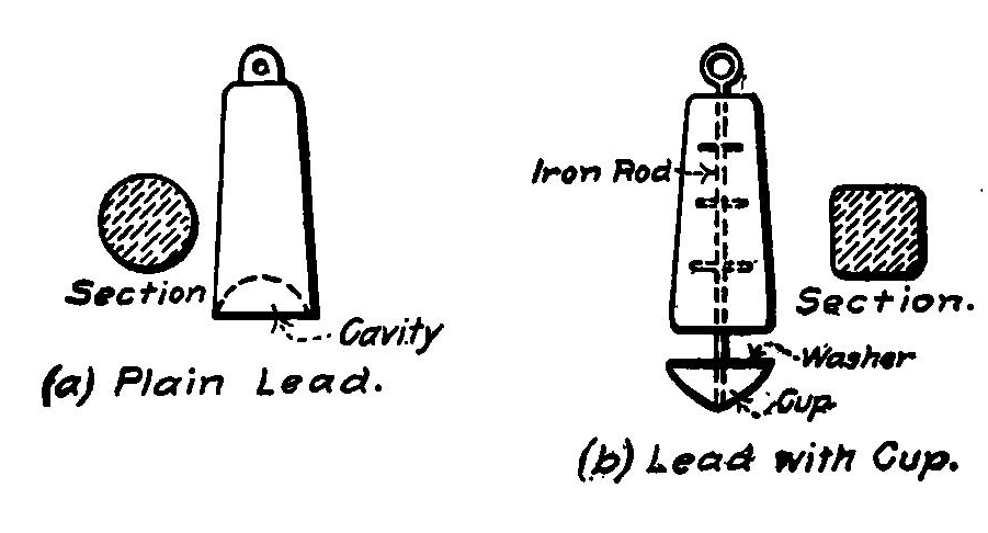 A sounding pole